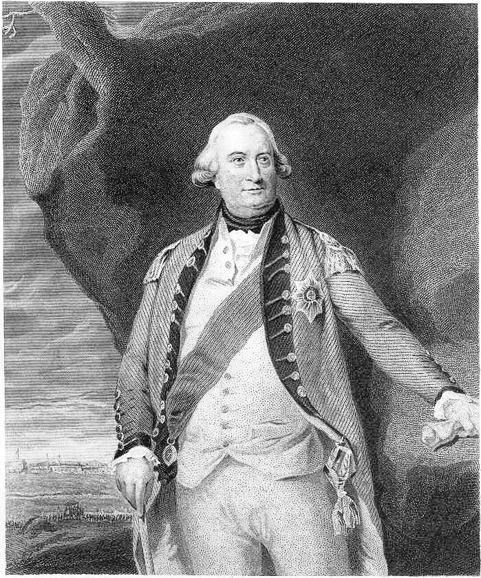 Charles Cornwallis, First Marquis of Cornwallis (1738-1805)